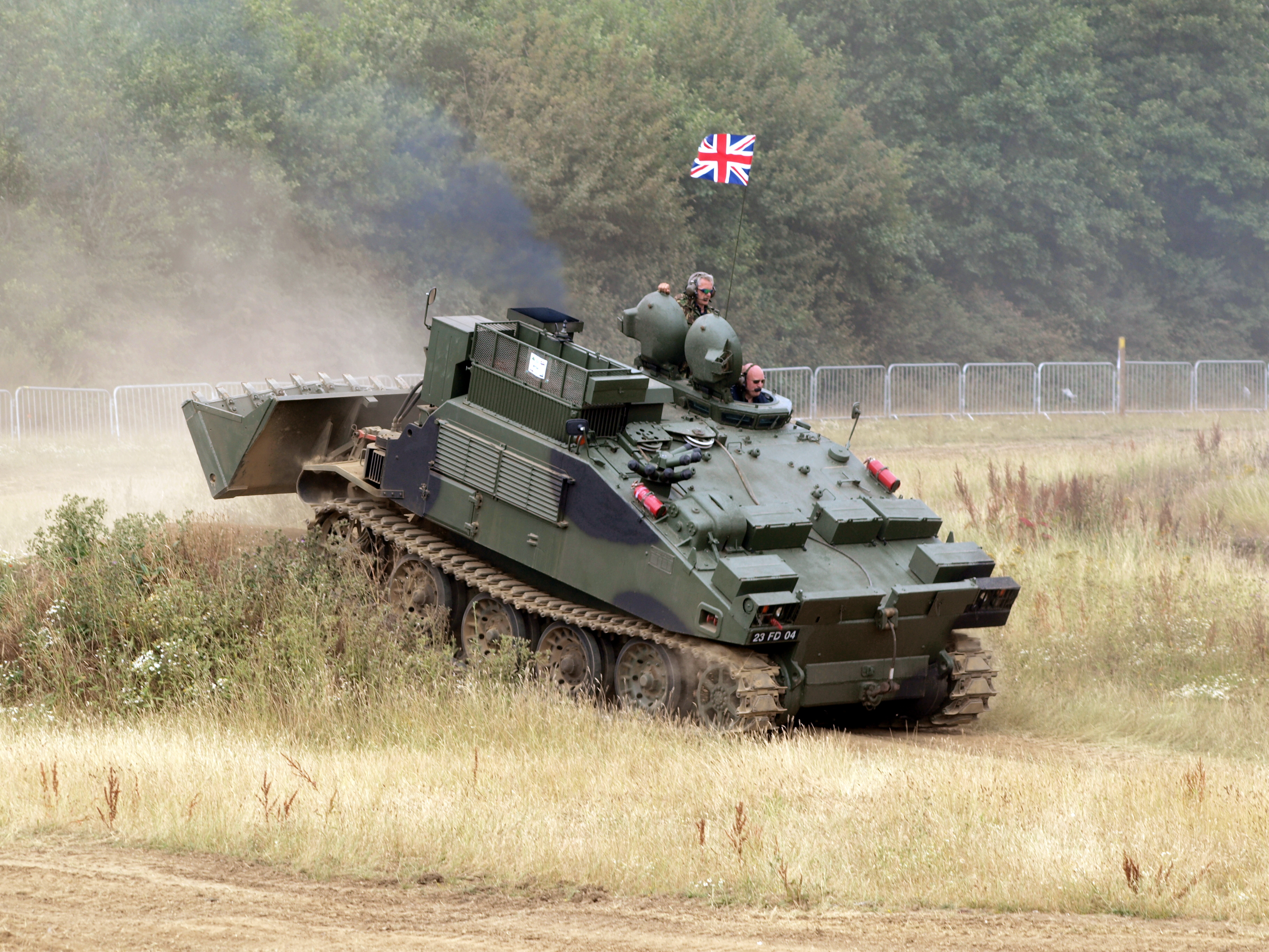 ROM Combat Engineer Tracktor (1978) owned by Andrew Brown